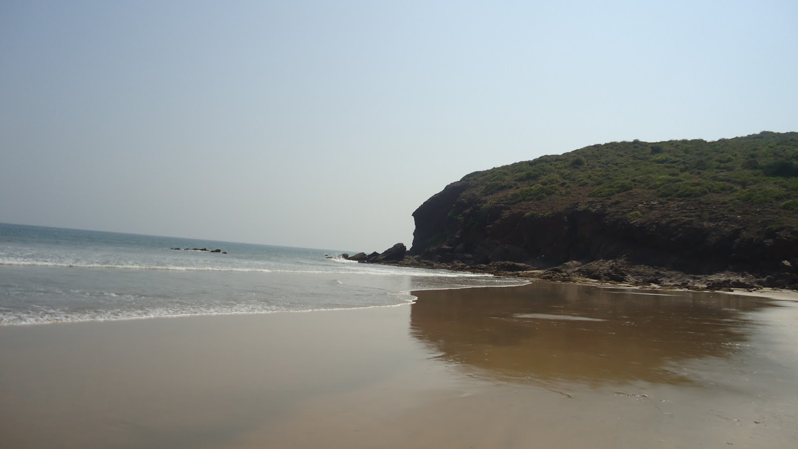 Yarada-Beach